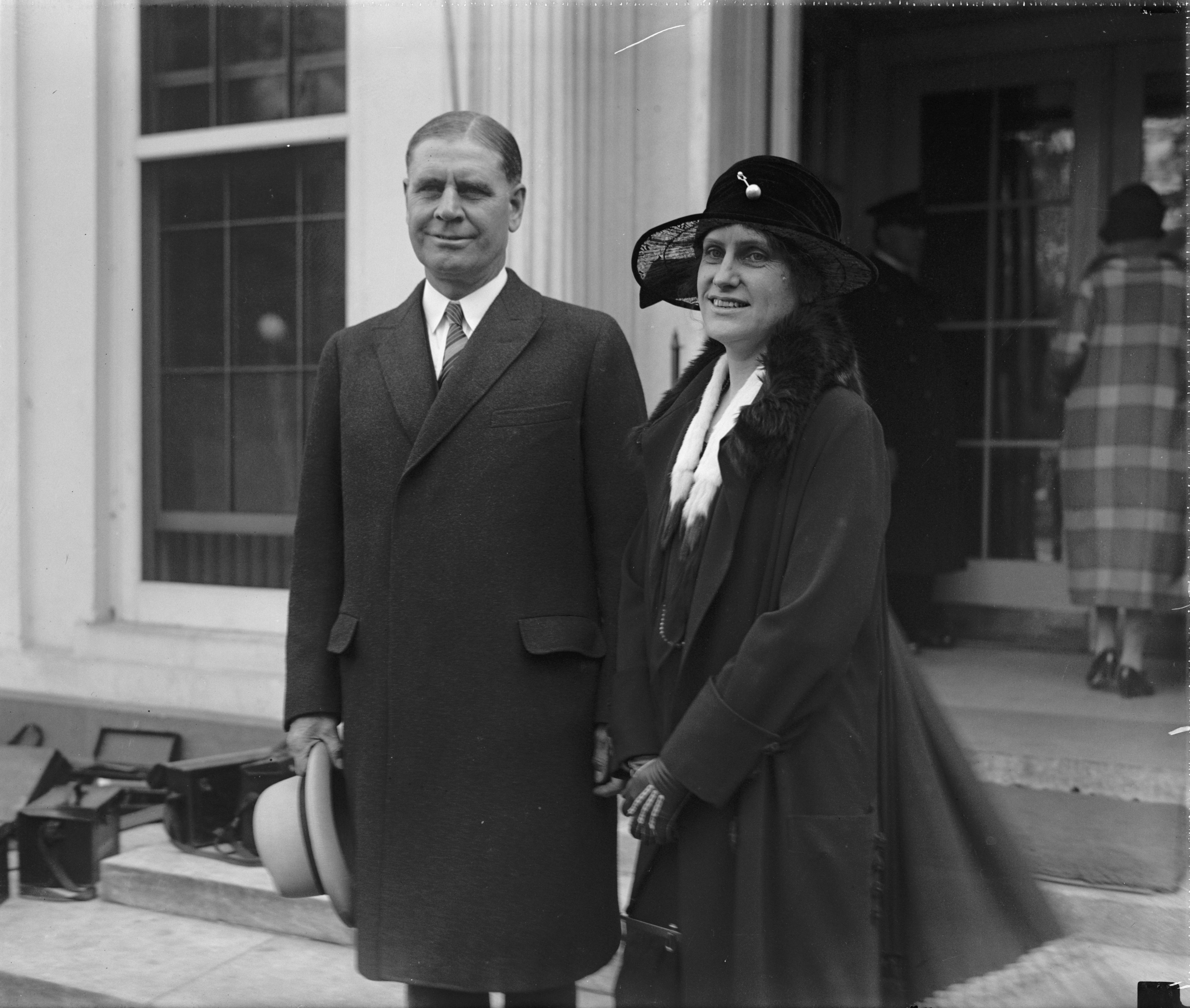 Gov. George H. Dern of Utah, Gov. Nellie Ross of Wyoming, 10/20/25